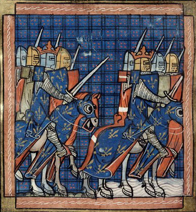 1214: French knights and their King Philip II August on the march. (British Library, Royal 16 G VI f. 377)